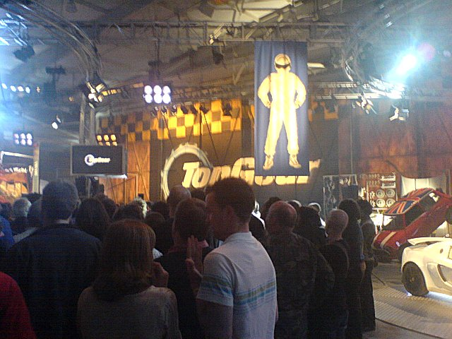 Top Gear. Top Gear is recorded in a disused hangar in this square (picture taken with camera phone). The producers gave us permission to take any pictures we wished as long as they weren't filming at the time and as long as they didn't include the "talent".